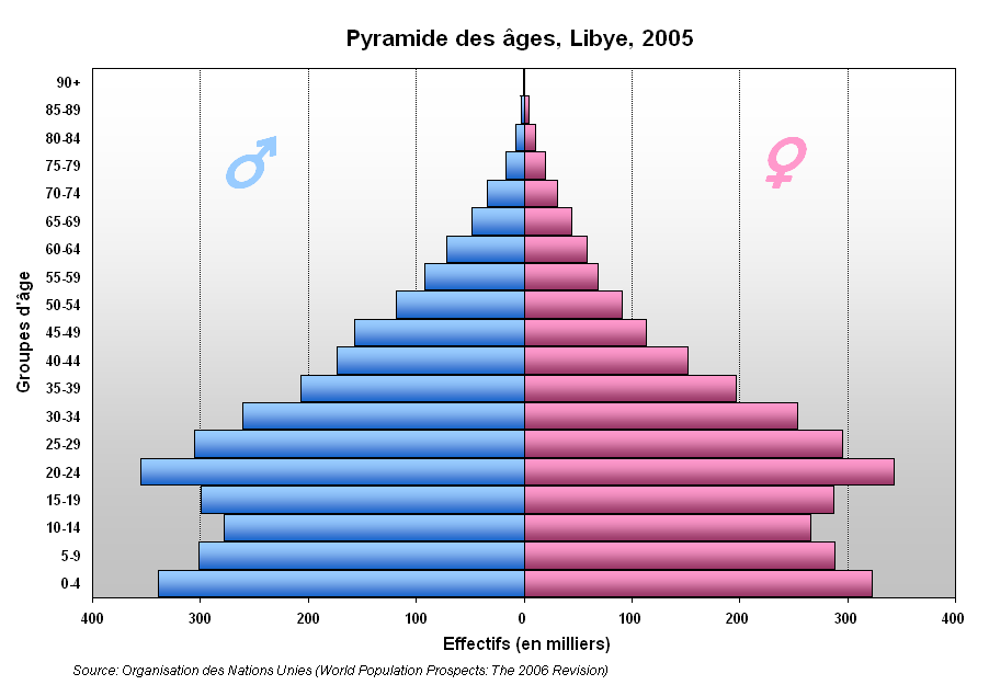 Libya Population pyramid, 2005